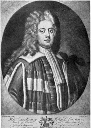 Portrait of John Carteret, 2nd Earl Granville (1690-1763), English politician